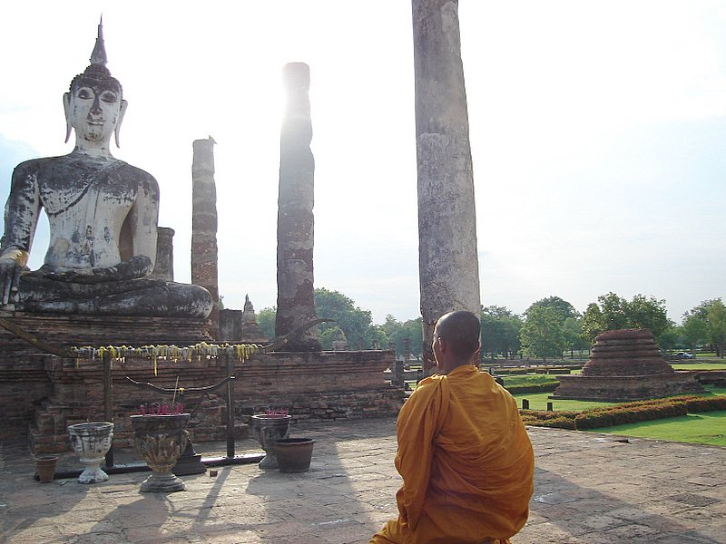 Wat Mahathat .Sukhothai ,Thailand.